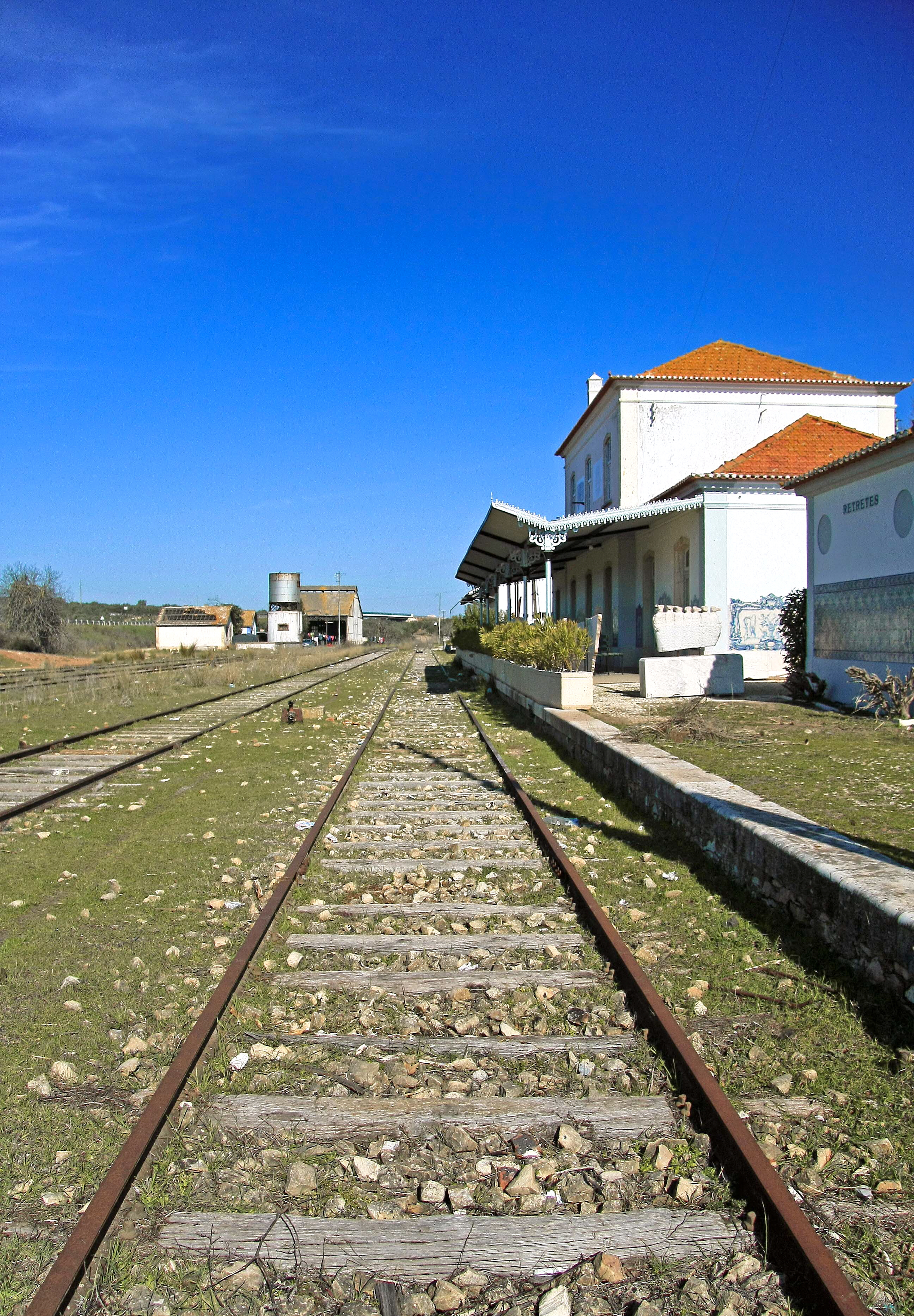 Former train station of Vila Viçosa on Vila Viçosa railway branch, Portugal